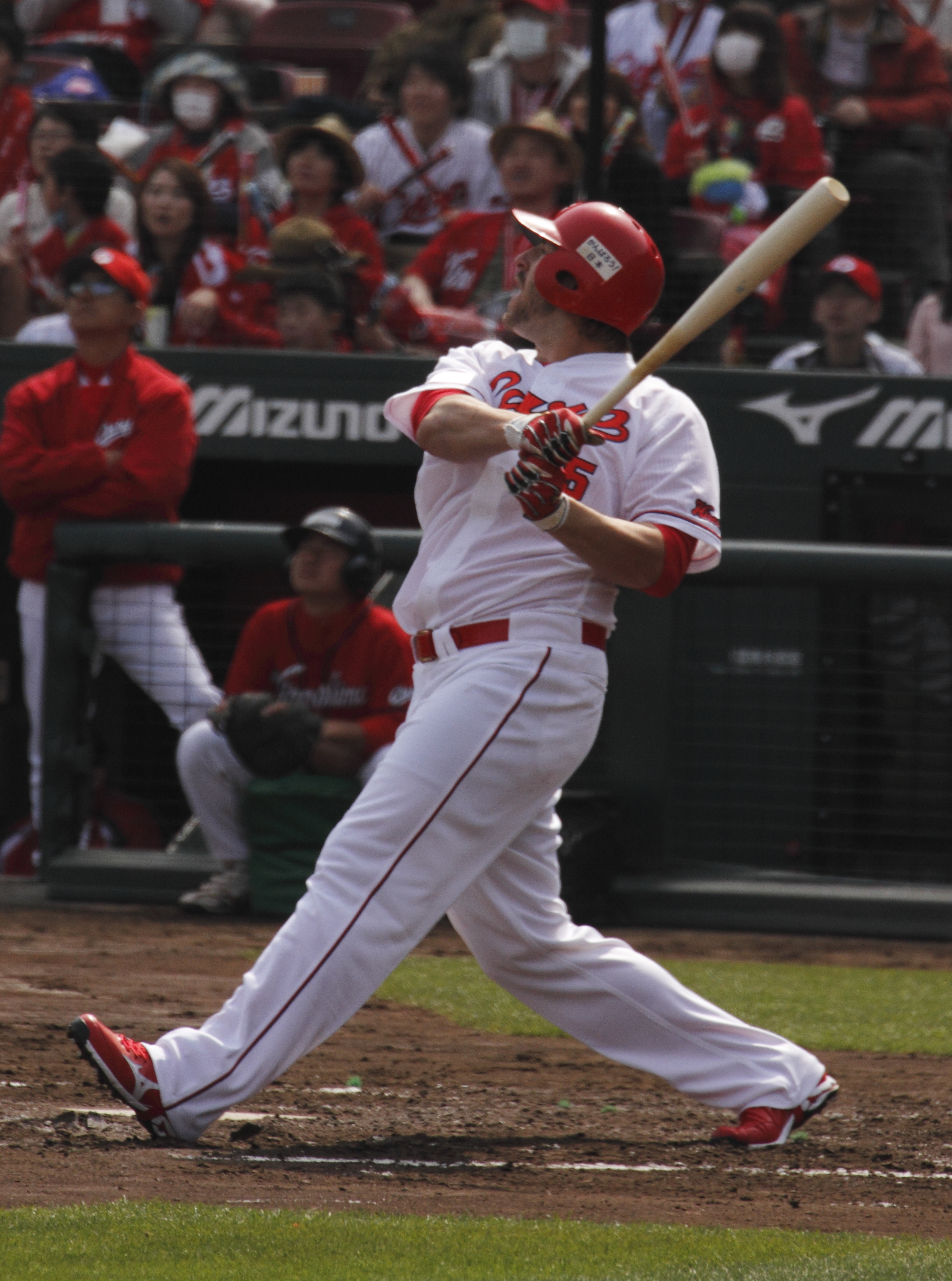 Brad Eldred, infielder of the Hiroshima Toyo Carp, at MAZDA Zoom-Zoom Stadium Hiroshima.